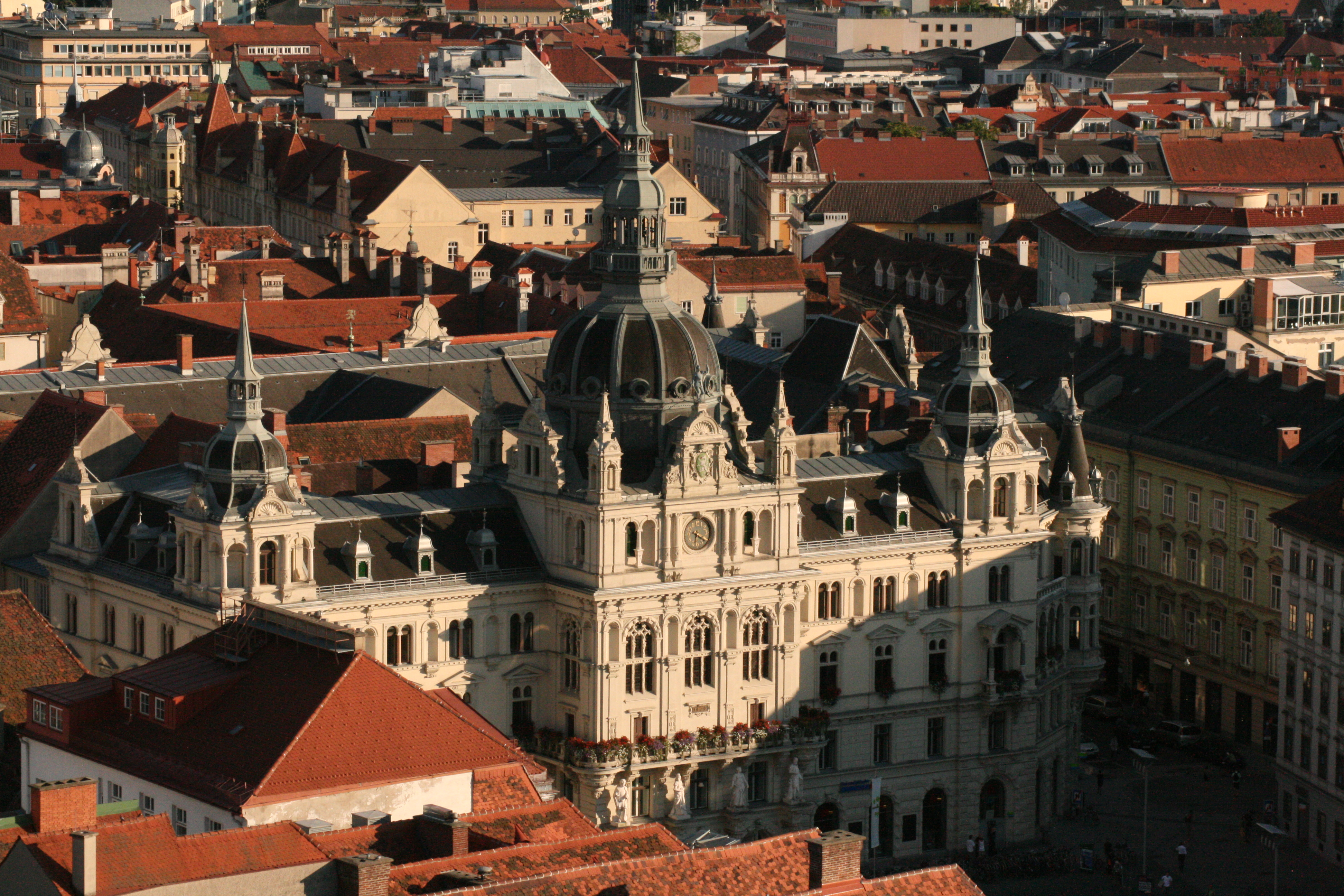 "Rathaus" (city hall) in Graz, Austria, Europe